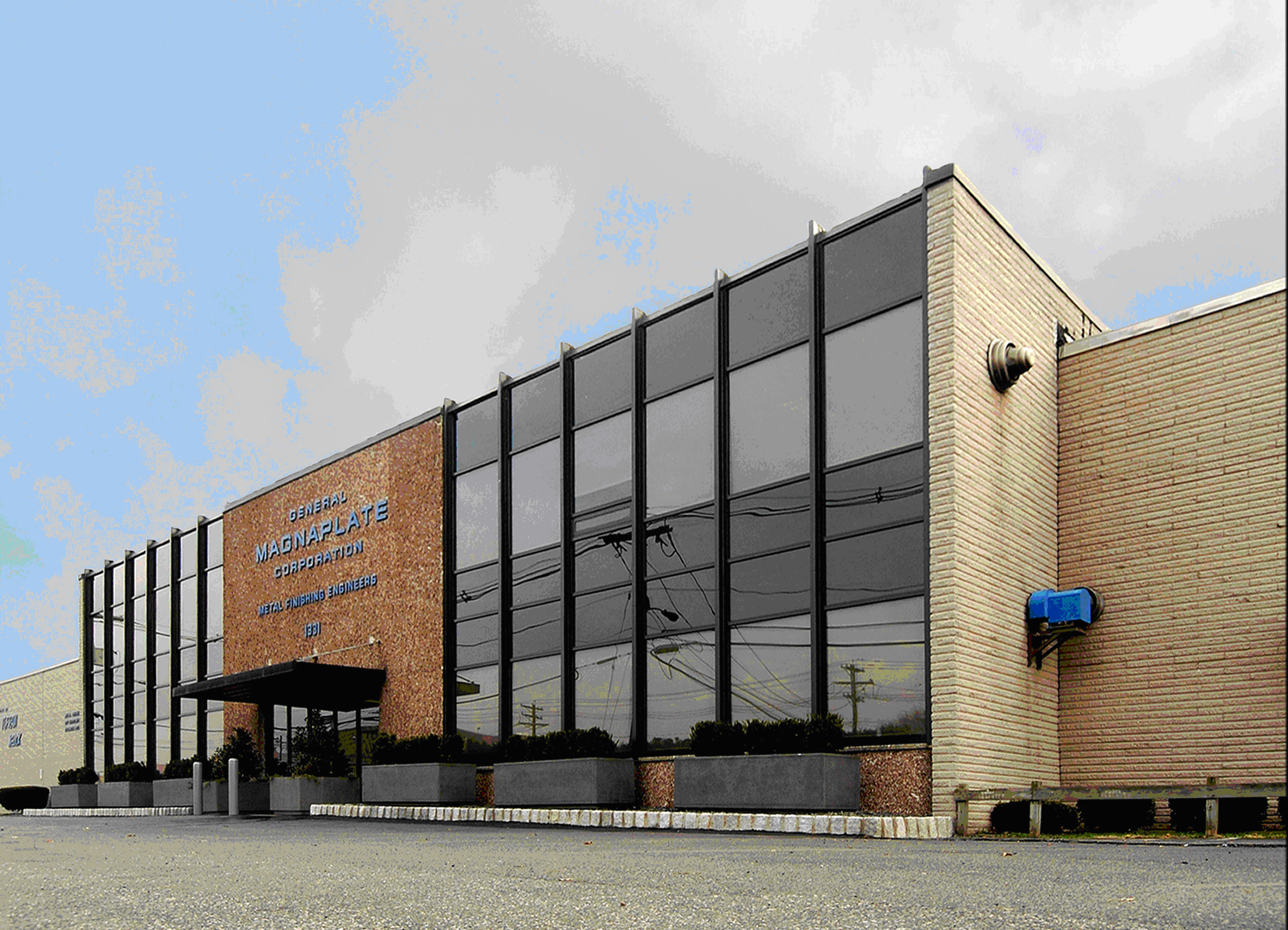 Company Headquarters